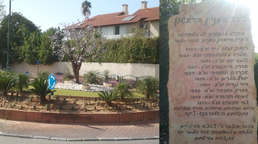 It is a square sign of memorial to people that founded in 1883 the city Nes Ziona. This is list of familiy names that came to Nes Ziona between 1883-1890. They belonged to Bilu movement. The name of the square is "The first Minyan".